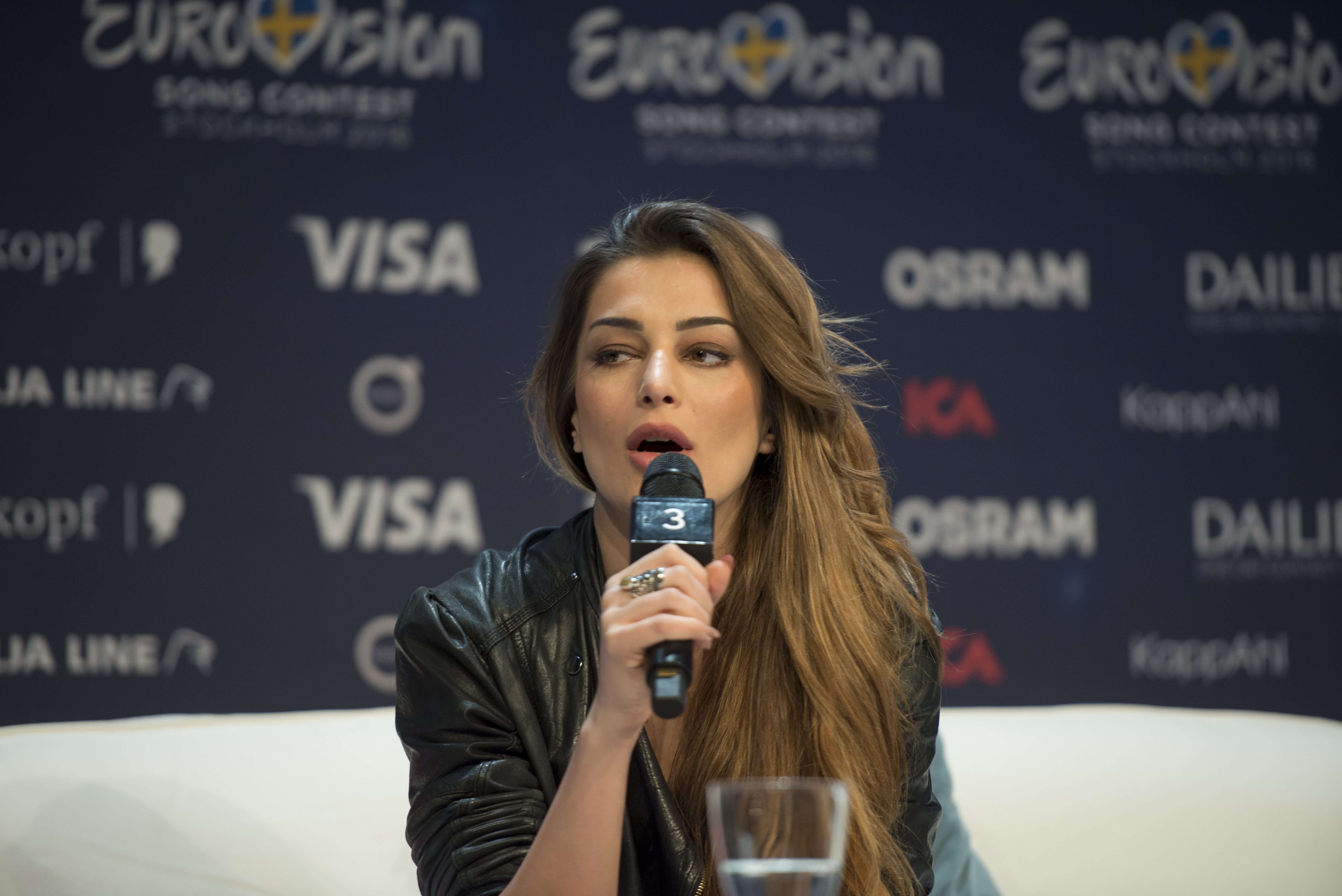 Iveta Mukuchyan at a Meet & Greet during the Eurovision Song Contest 2016 in Stockholm. (Help translate this text)